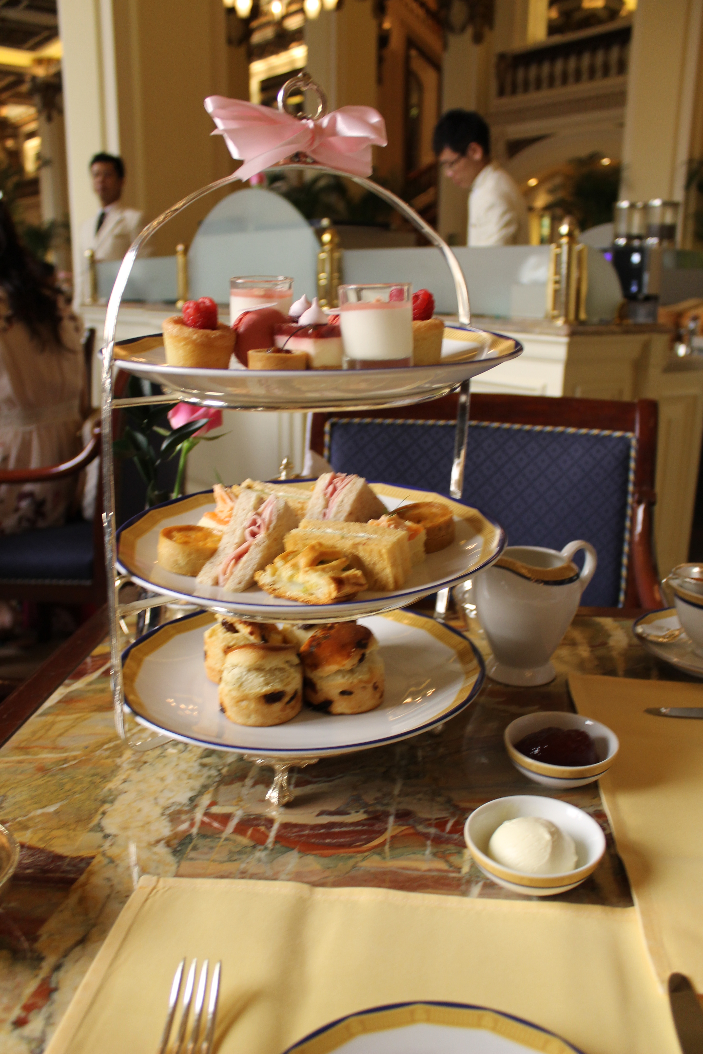 Afternoon Tea in the Peninsula, Hong Kong